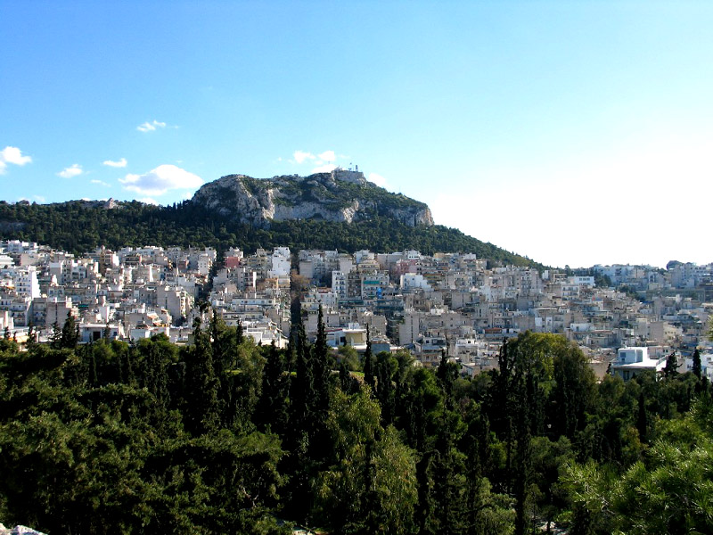 Lycabetus hill from Areos park, Athens, Greece